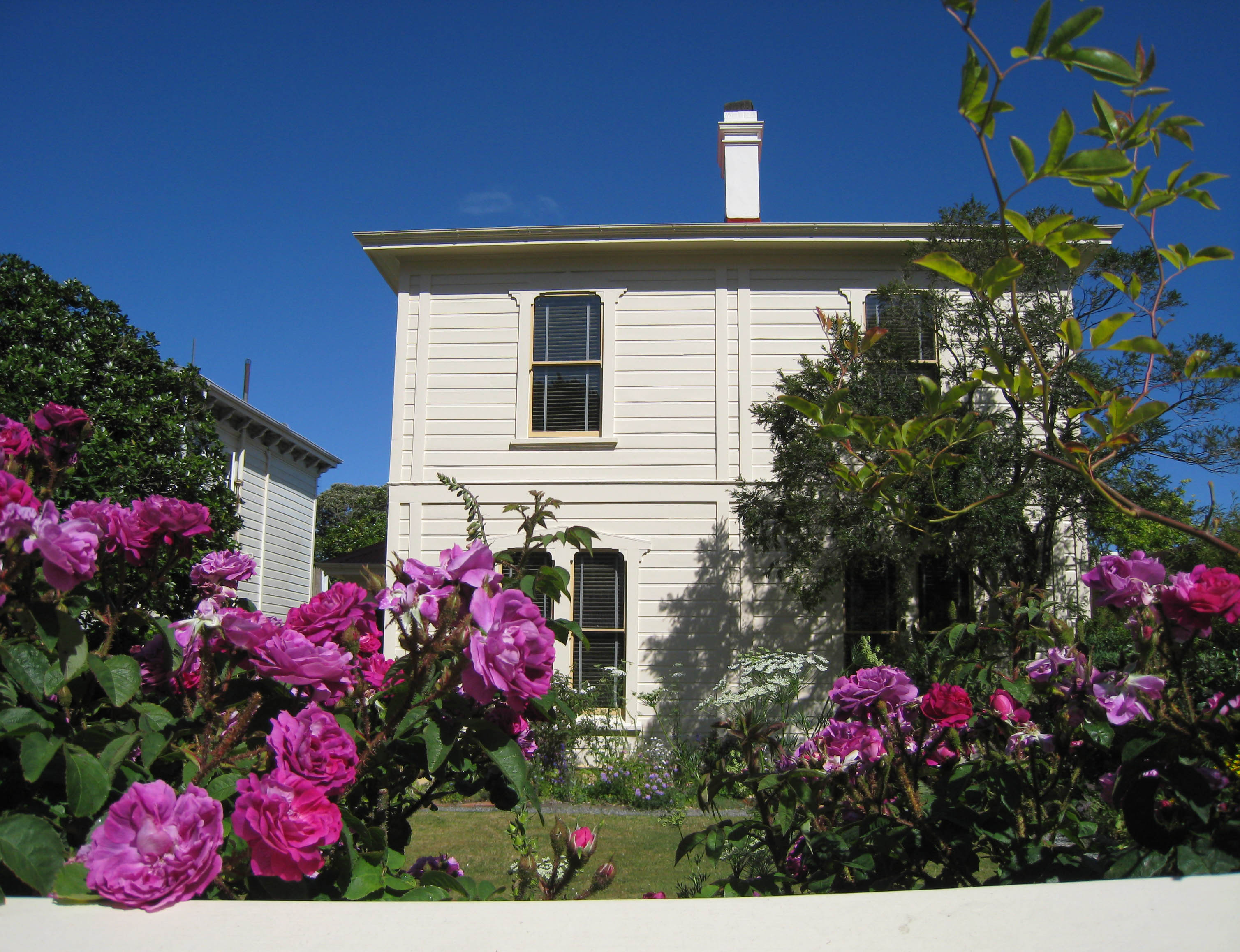 I took this photo of Katherine Mansfield Birthplace in Thorndon, Wellington, New Zealand on the 3rd of December 2007. New Zealand Historic Places Trust Register number: 4428